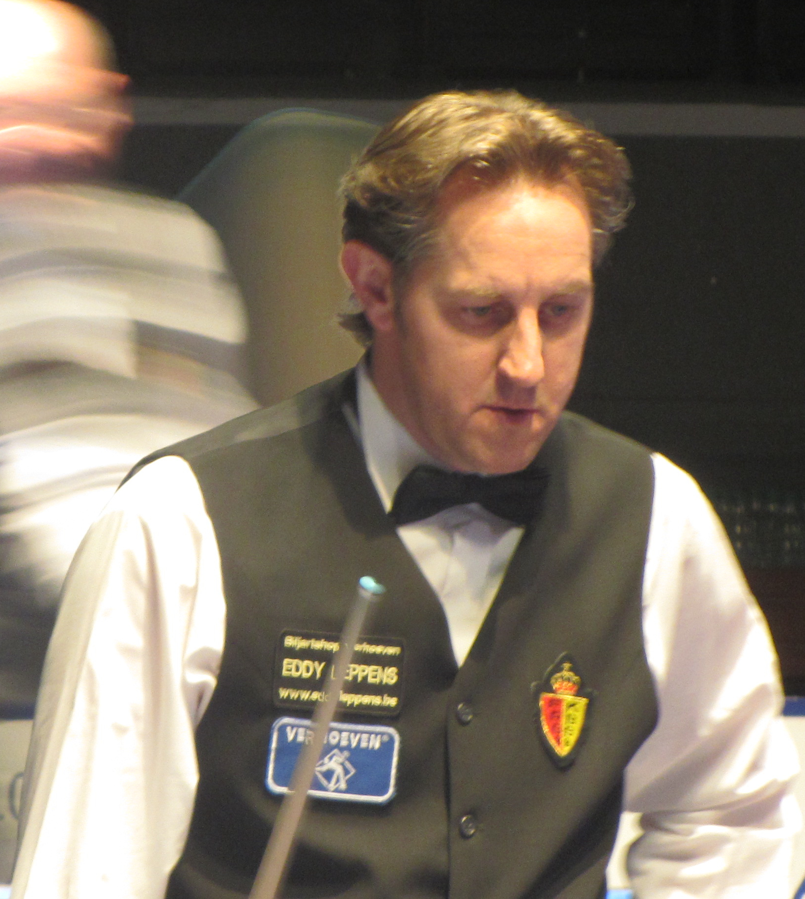 Portrait of German Christian Rudolph at the 2013 European Championship in Brandenburg/Havel, Germany. Cropped from File:Carom_Billiards_EC_Brandenburg_Havel-GER_2013-04-20_25-Leppens.JPG